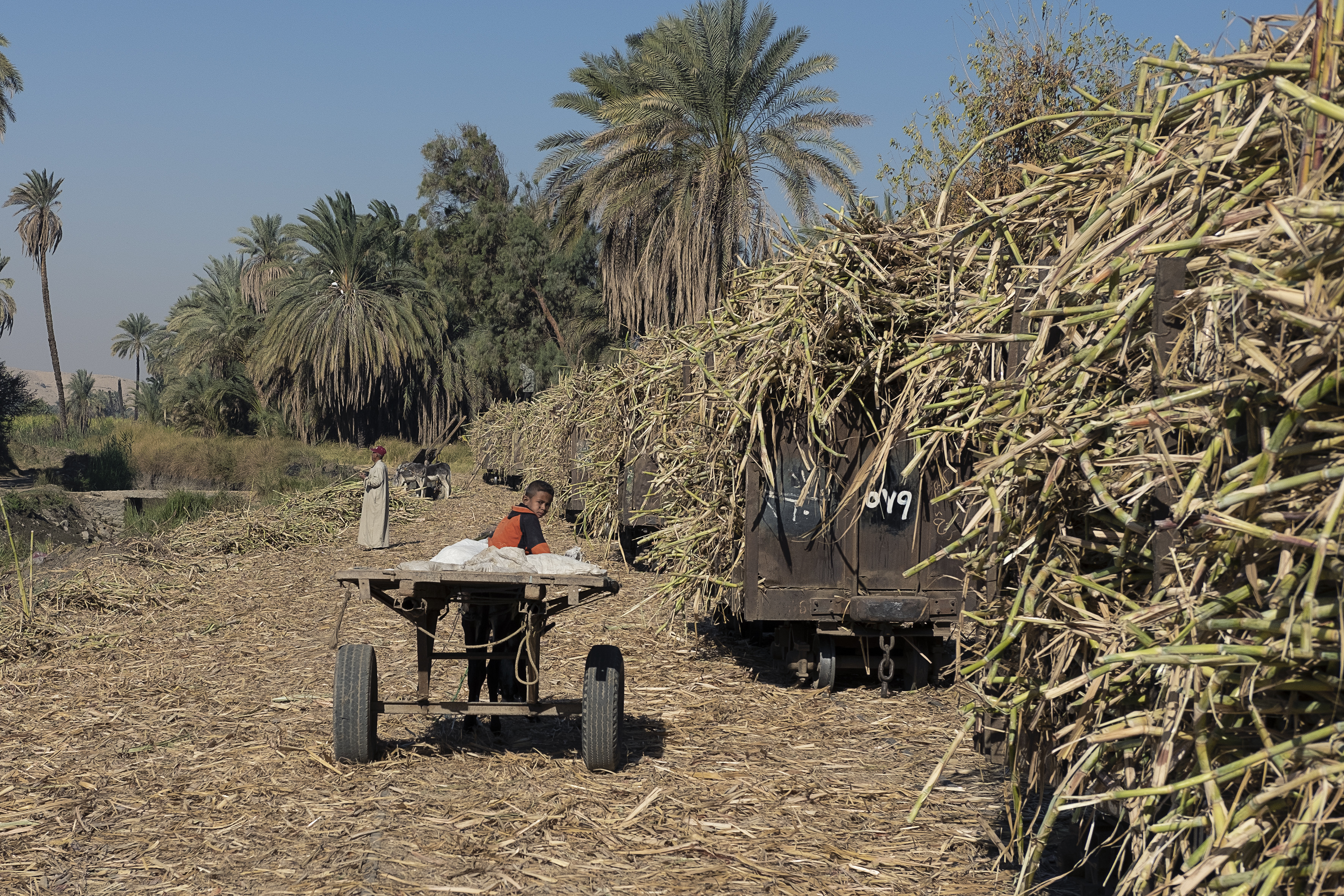 Train getting ready before moving to the factory This is an image with the theme "Africa on the Move or Transport" from: Egypt